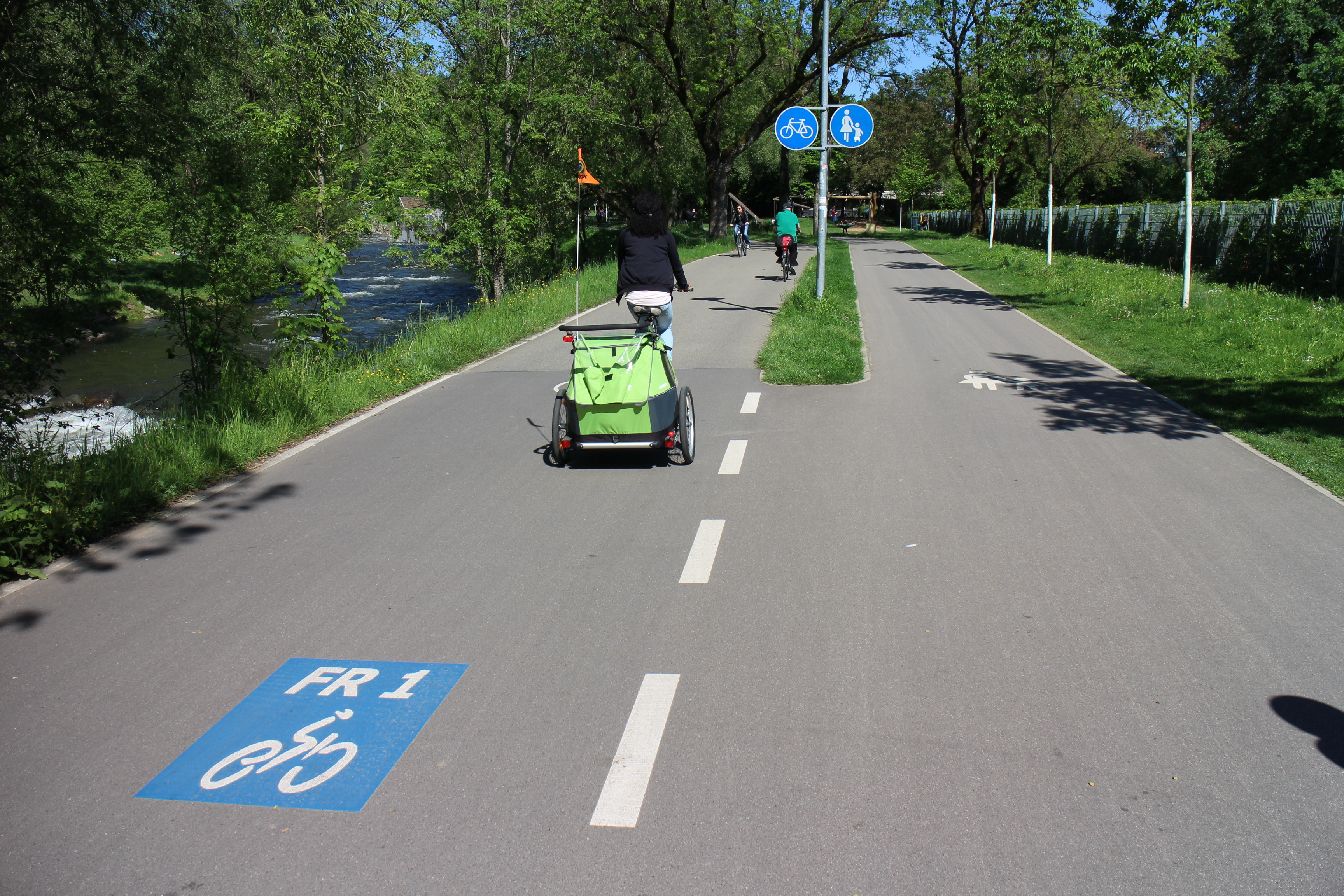 Germany / Freiburg im Breisgau: Comfort bike route FR1 Dreisamuferweg: new track with separated lanes for bicycle and pedestrians near the river Dreisam.